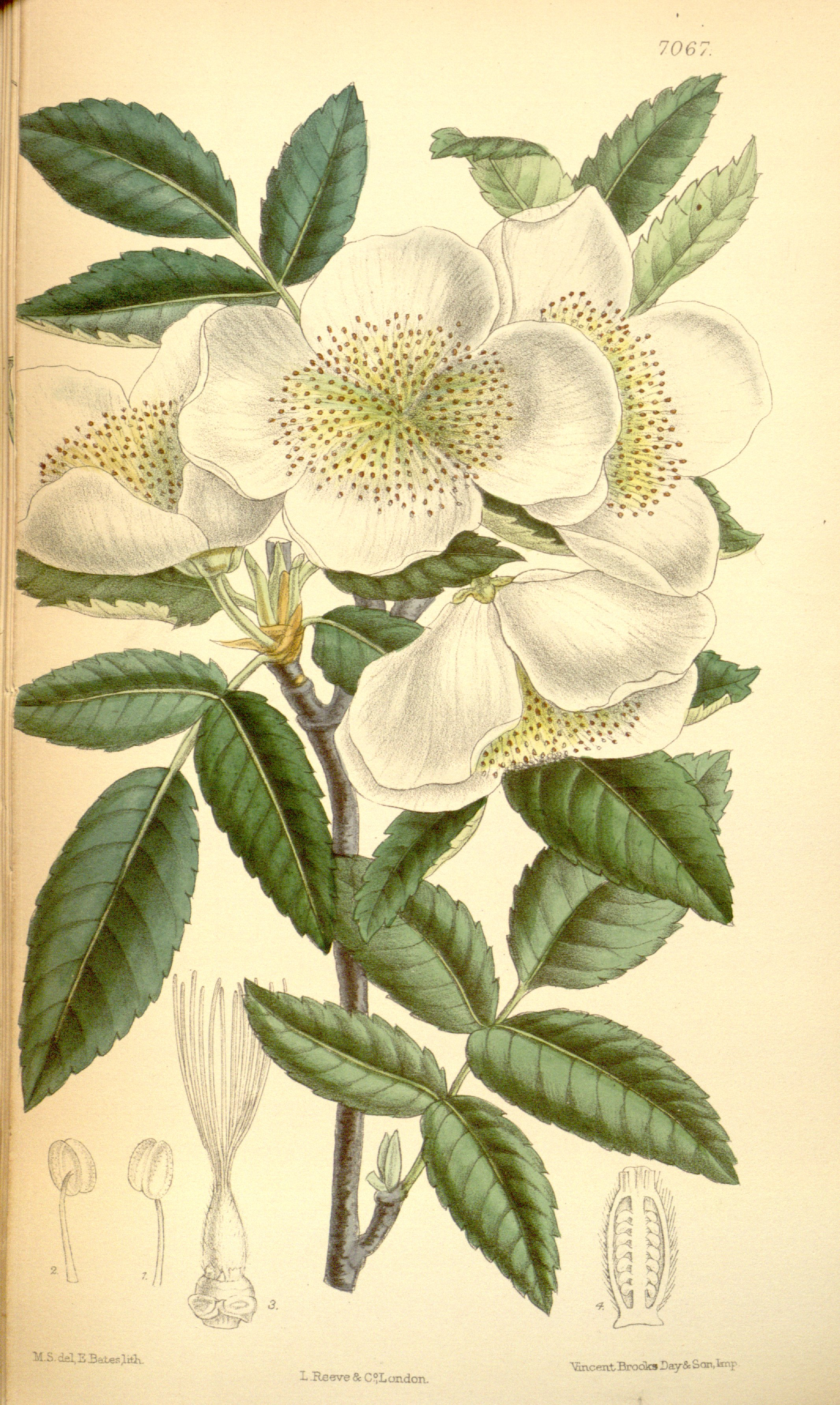 Eucryphia cordifolia